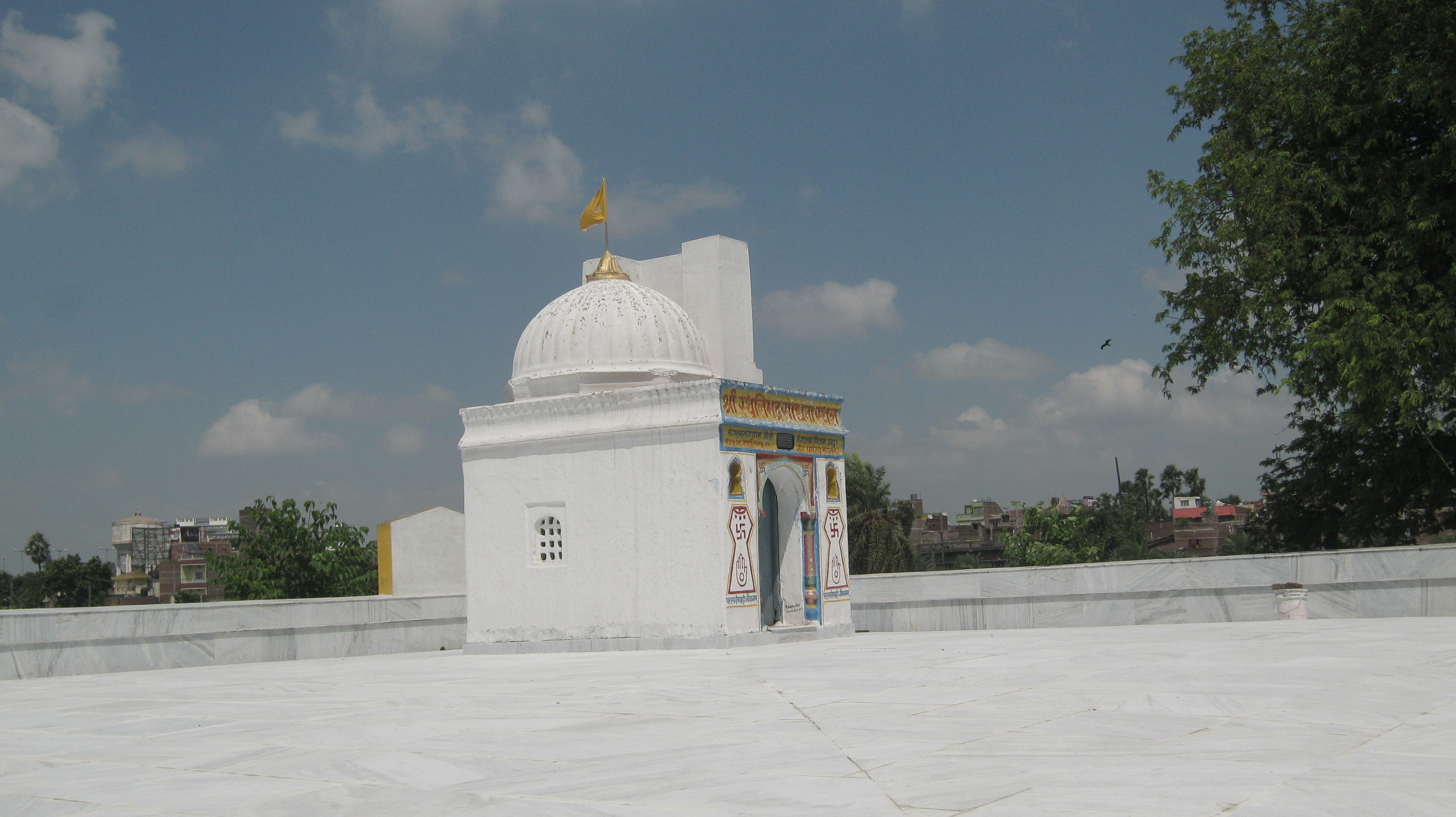 Jain Temple, Kamaldah, Gulzarbagh, Patna, Bihar.